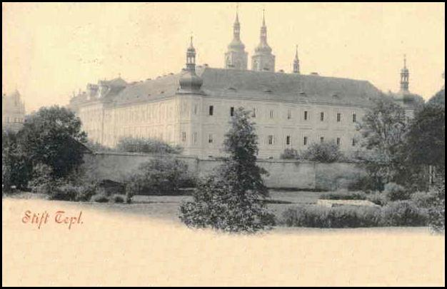 Teplá Monastery in 1899.